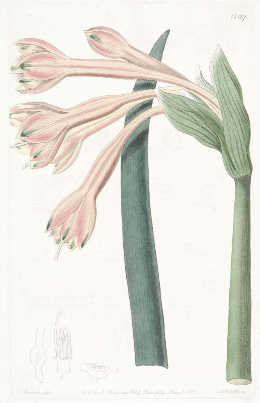 Clinanthus fulvus